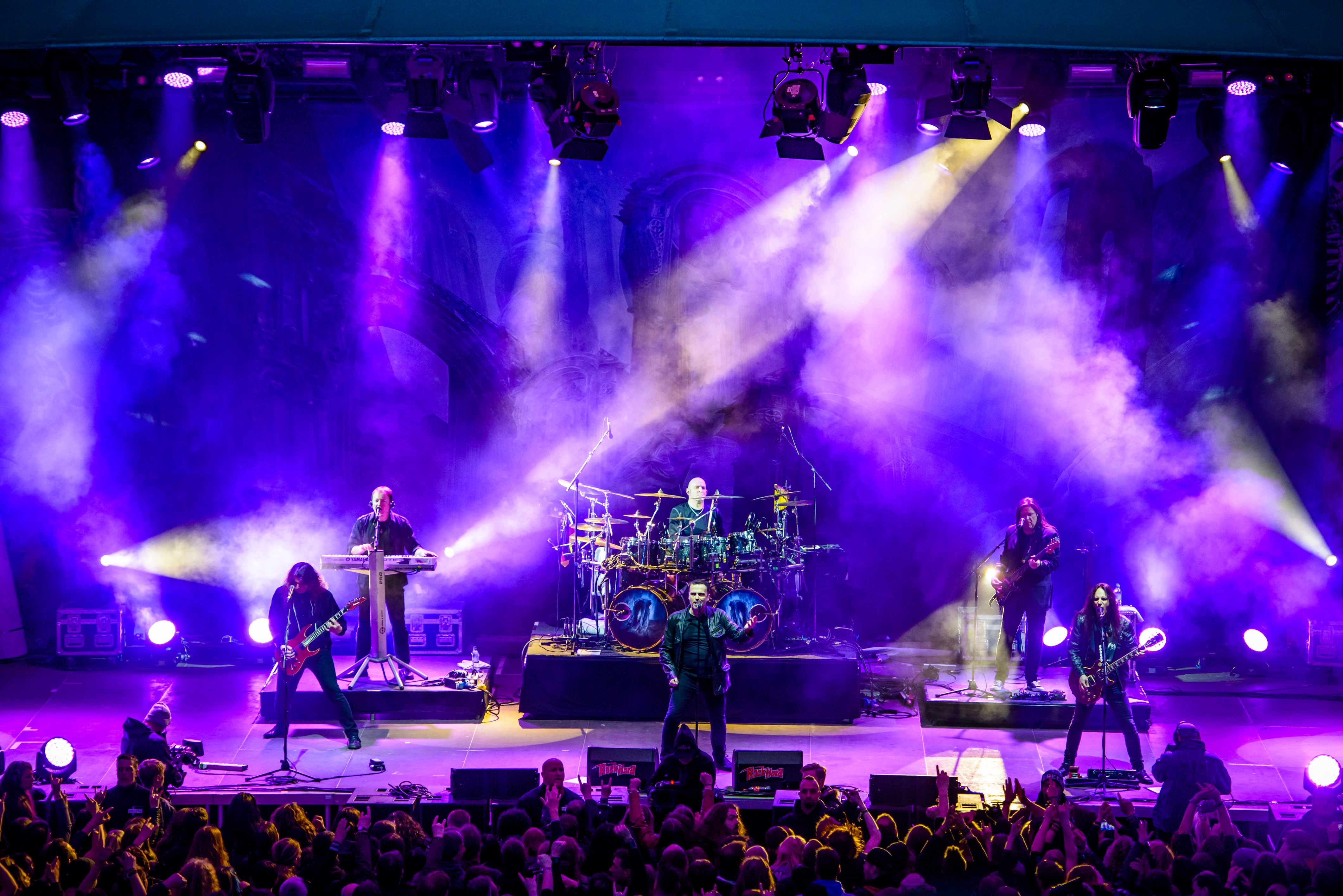 Blind Guardian; RockHard Festival 2016